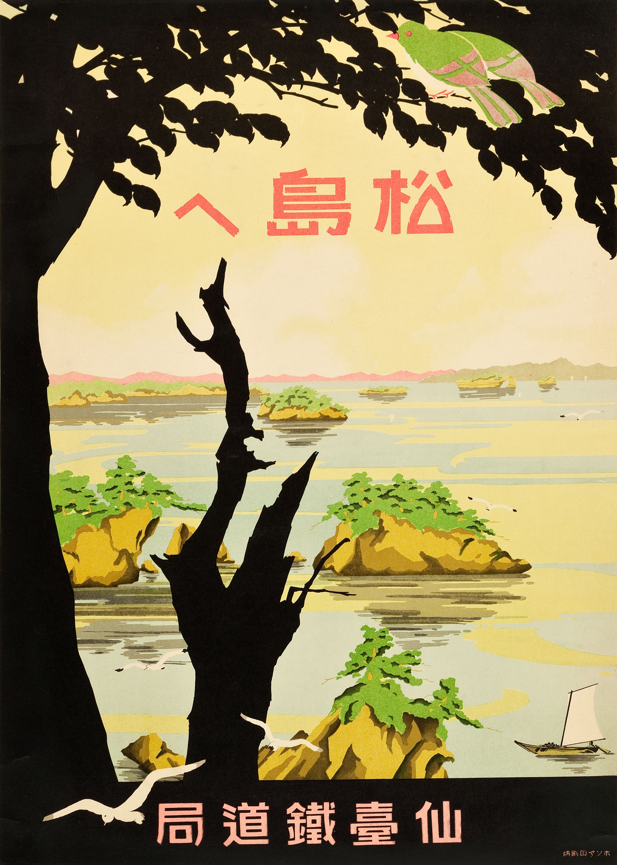 Towards Matsujima (Sendai Rail Bureau, 1930s). Japanese Poster (21" X 30").